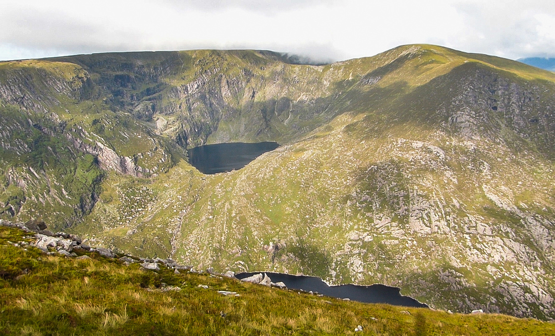 Hanging lake of Lough Erhogh in Mangerton Mountain, Killarney National Park, Ireland